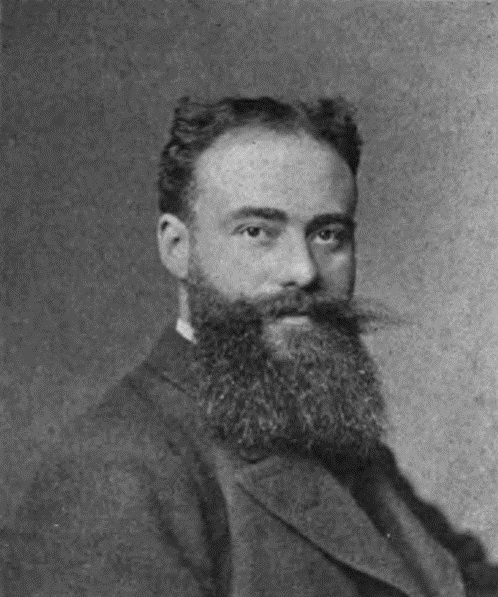 Hermann Sudermann